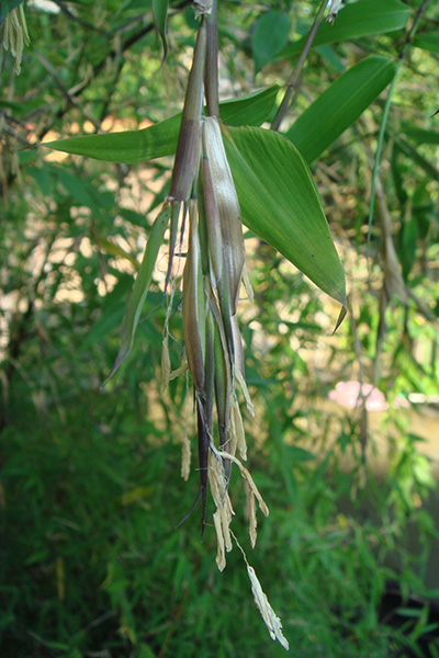 Phyllostachys Glauca 'Yunzhu' in flower at Bamboo Botanicals Garden and Nursery in Canada